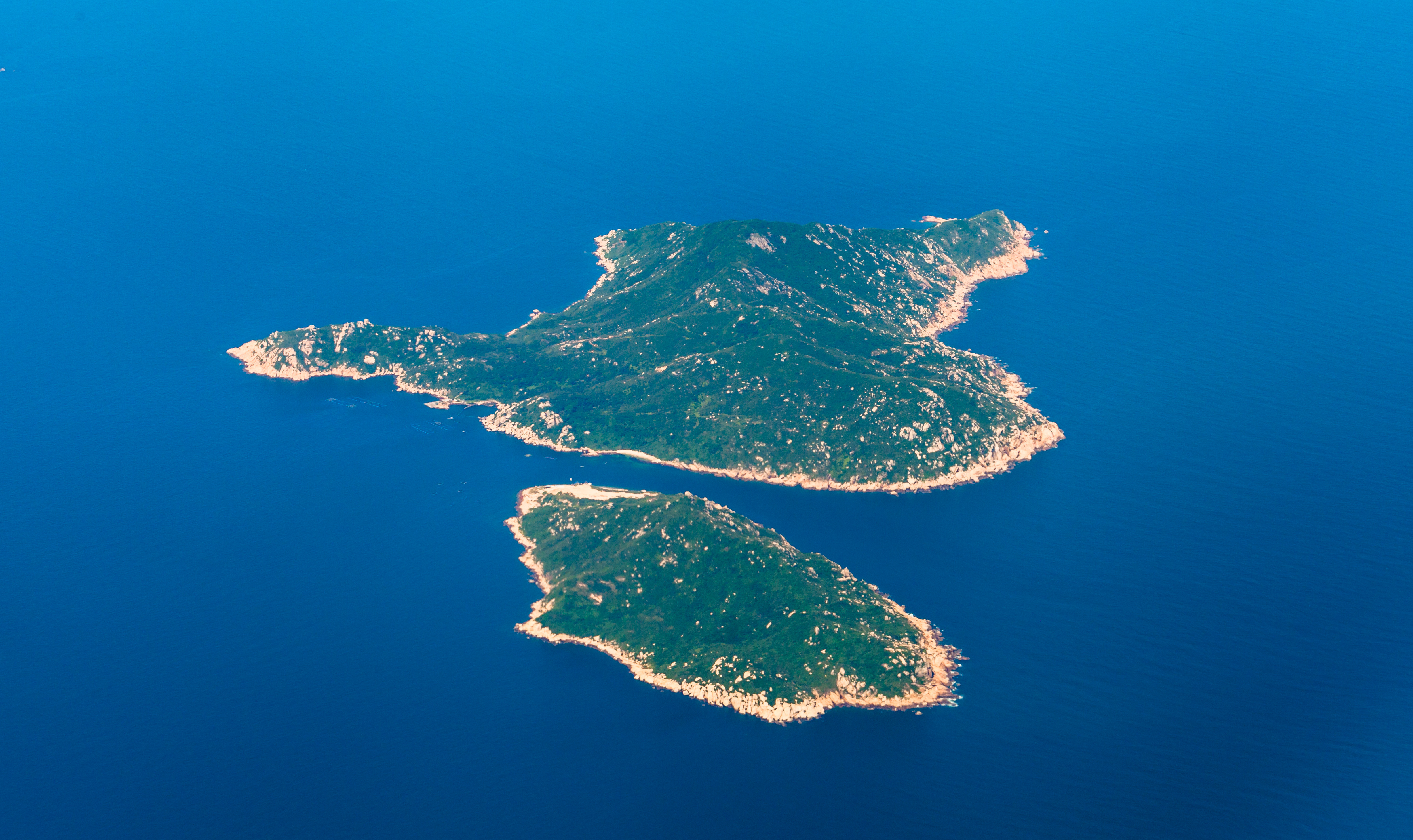 Islas del archipiélago Wanshan, Hong Kong